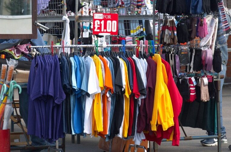 Clothes for sale at the Greenwich market.